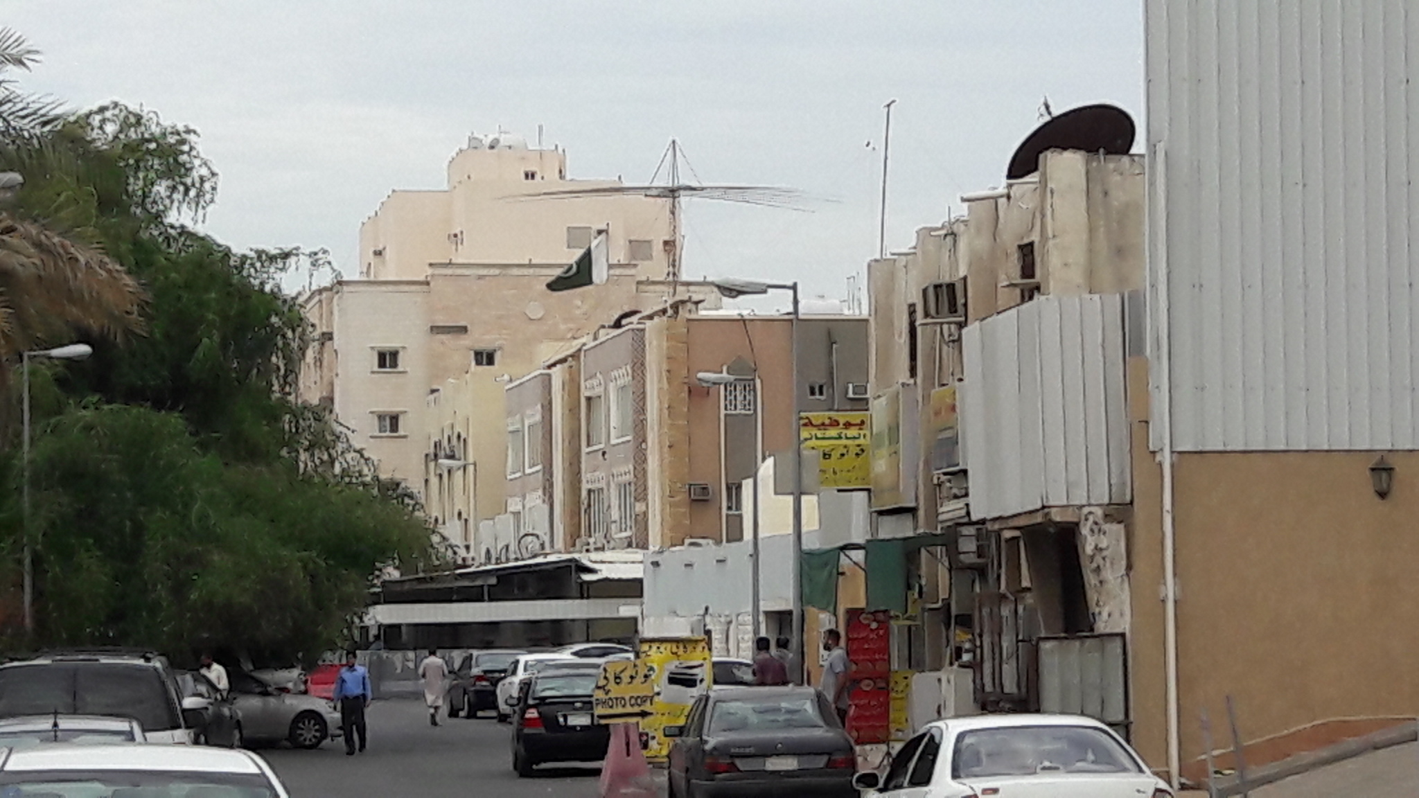 Consulate-General of Pakistan - Jeddah